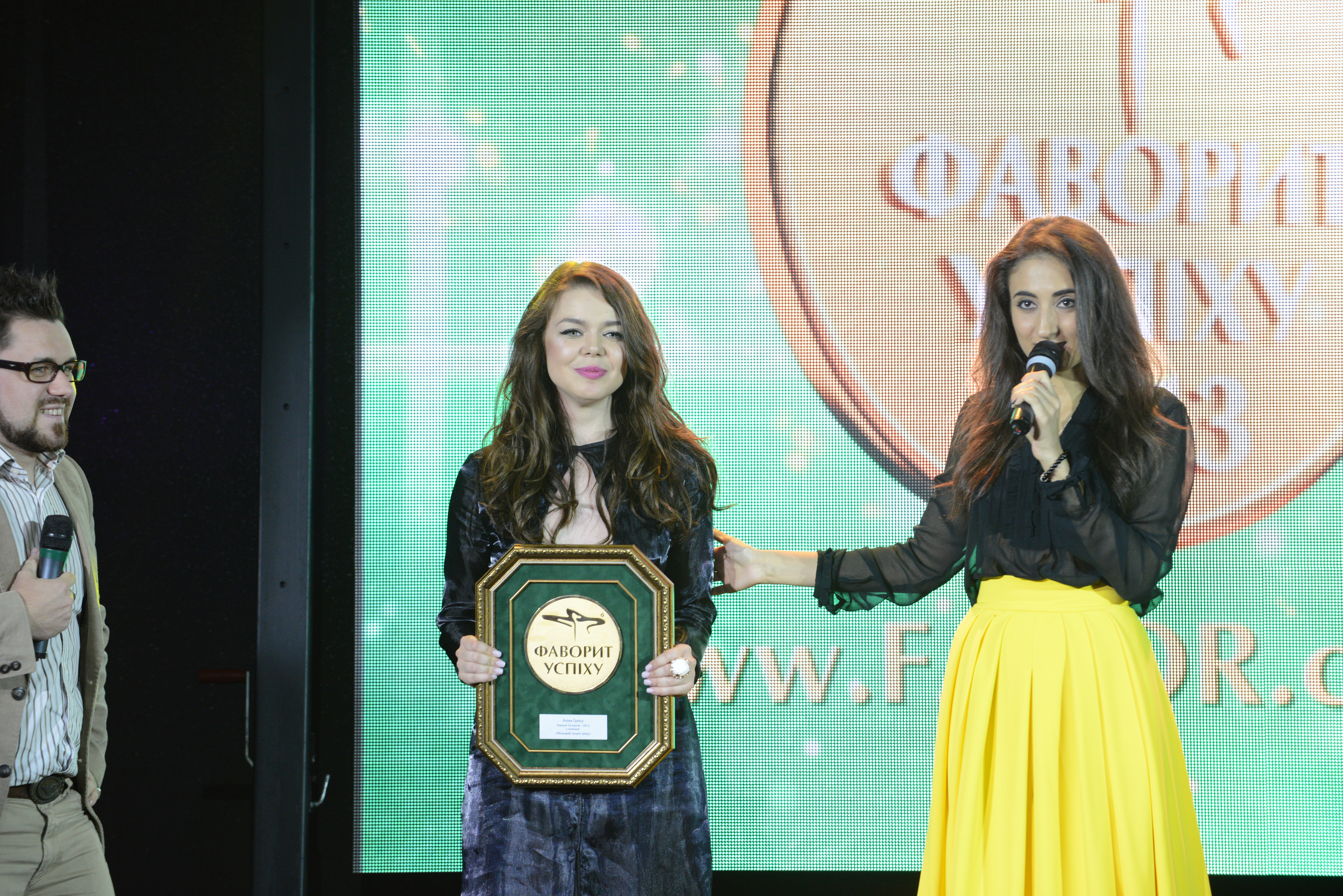 Alina Grosu, winner of the "Favorites of Success" Award